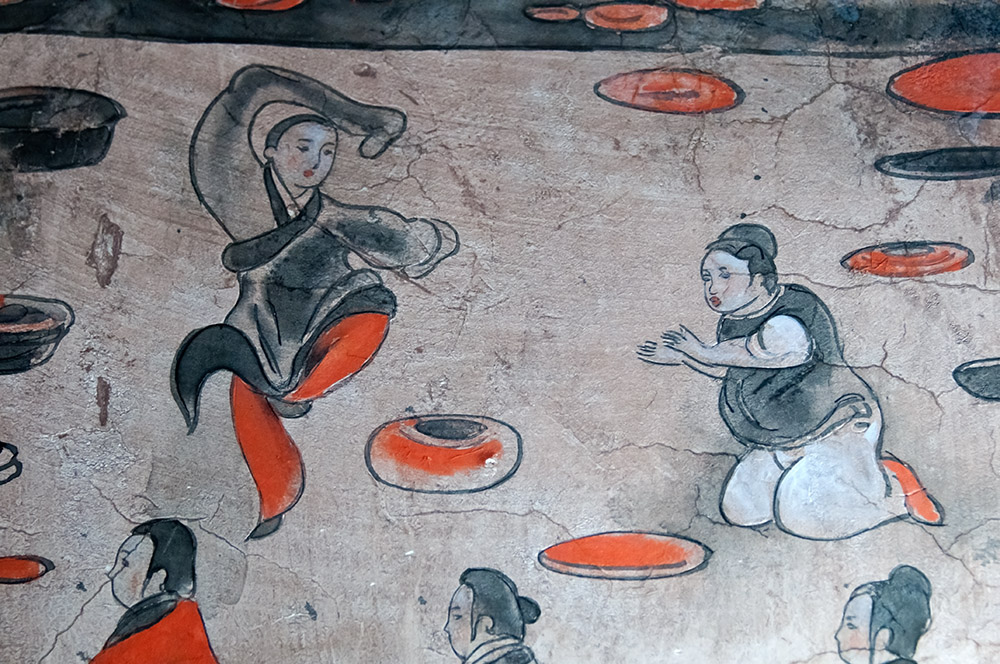 The Dahuting Tomb (Chinese: 打虎亭汉墓, Pinyin: Dahuting Han mu; Wade-Giles: Tahut'ing Han mu) of the late Eastern Han Dynasty (25-220 AD), located in Zhengzhou, Henan province, China, was excavated in 1960-1961 and contains vault-arched burial chambers decorated with murals showing scenes of daily life. For further information, see the Baidu article (in Chinese): 打虎亭汉墓. Click here for more pictures and a step-by-step walkthrough of the tomb, from the outside, down a stairwell, and through the vaulted burial chambers.